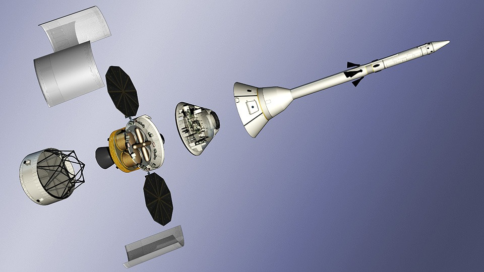 NASA's Constellation Program continues work on the development of the Orion spacecraft that will return humans to the moon and prepare for future voyages to Mars and other destinations in our solar system. This pull-apart, cut-away artist's rendering represents the Orion crew exploration vehicle. From the left are a spacecraft adapter, service module with launch shrouds, crew module and launch abort system.